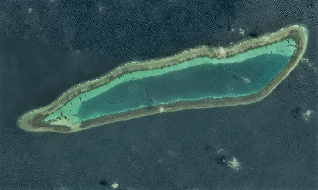 Dallas Reef is an atoll of Spratly Islands.